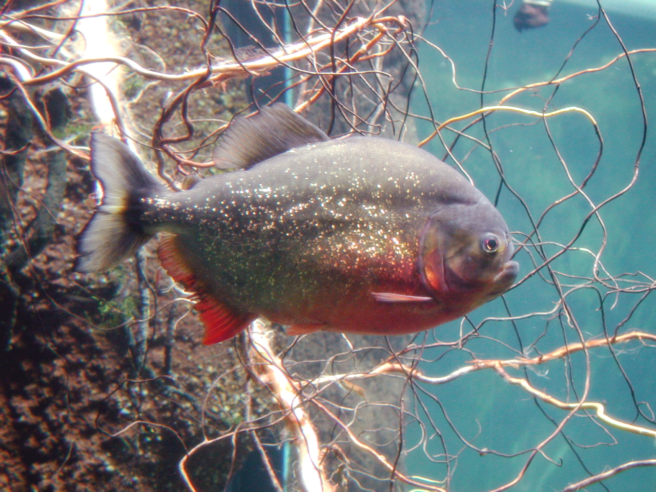 Piranhas are natives of South America and can be found in freshwater in Argentina, Bolivia, Brazil, Colombia, Ecuador, Guyana, Paraguay, Peru, Uruguay, and Venezuela. As their name suggests they have a reddish tinge to the belly. They grow to a maximum of 33 cm and a weight of 3.5 kg.